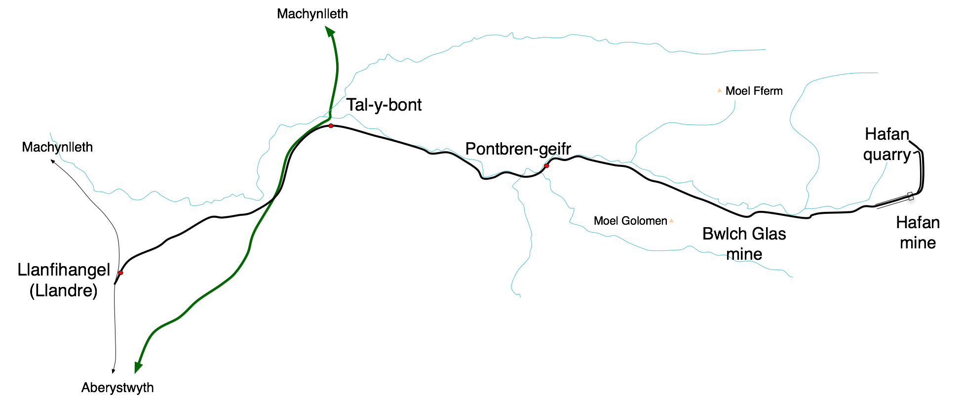 Map of the Plynlimon and Hafan Tramway